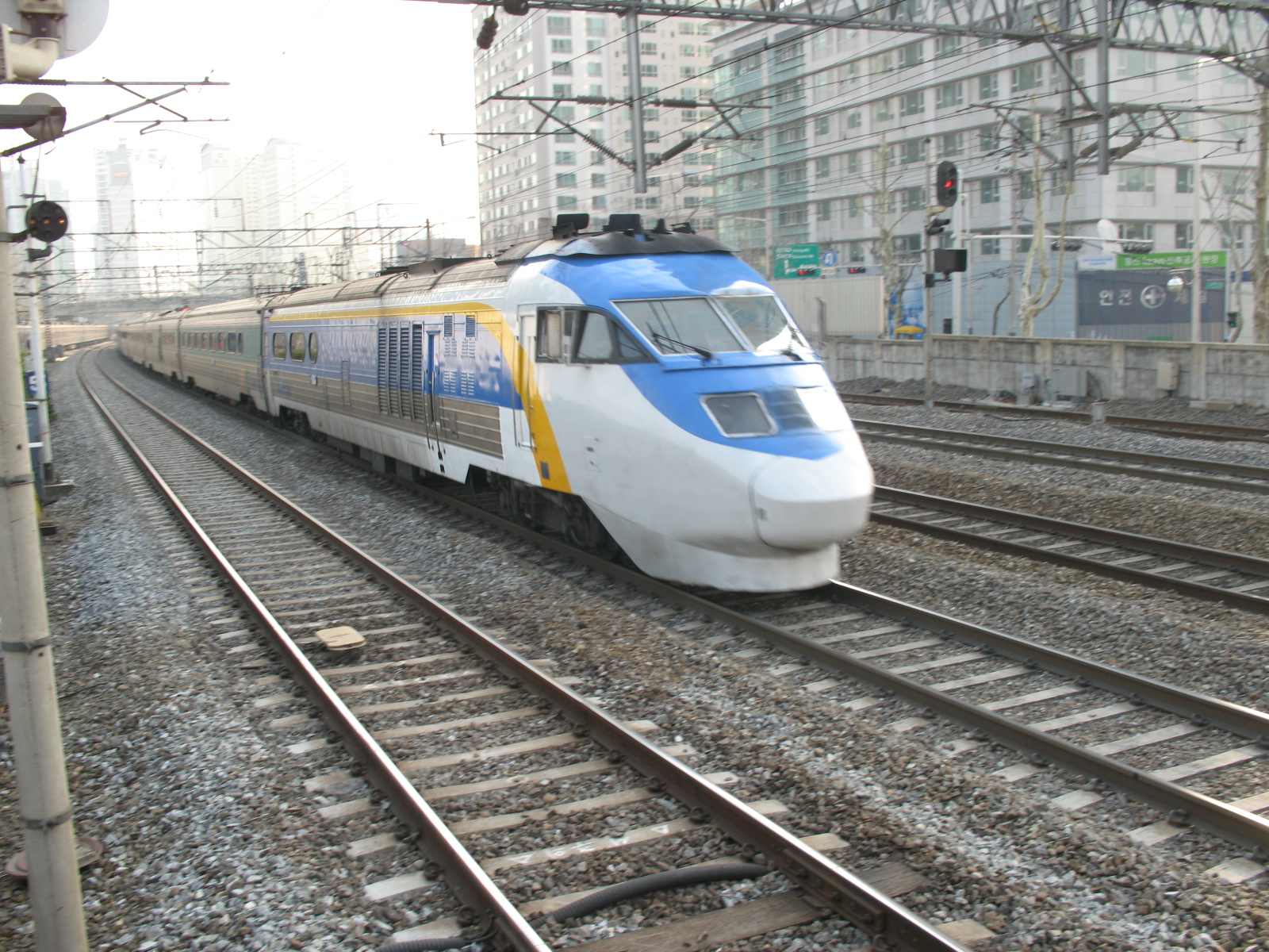 Korail Saemaul-ho Diesel Hydraulic Car(New CI livery).